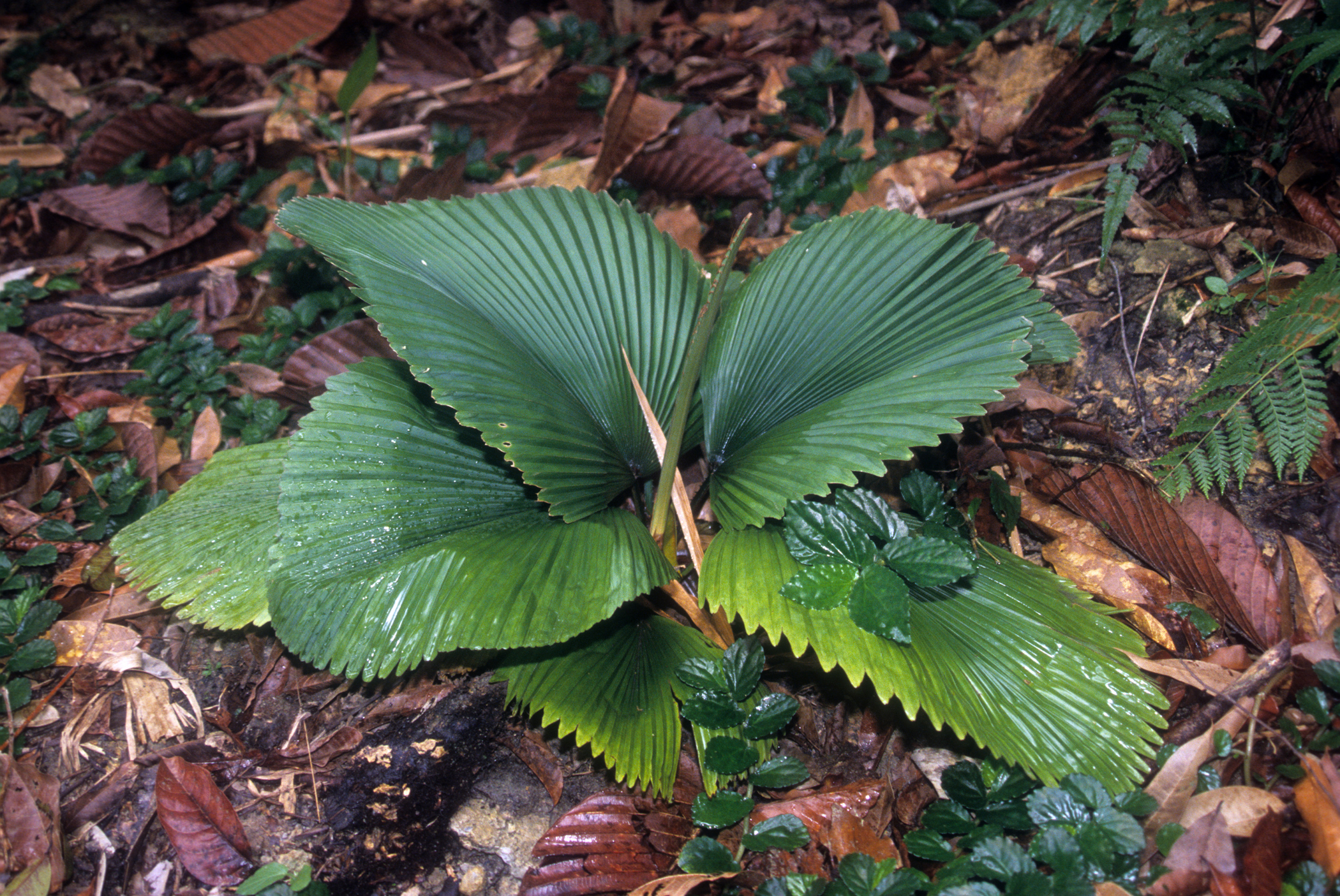 cultivated, Forest Research Institute of Malaysia. Oct. 2002. from slide.